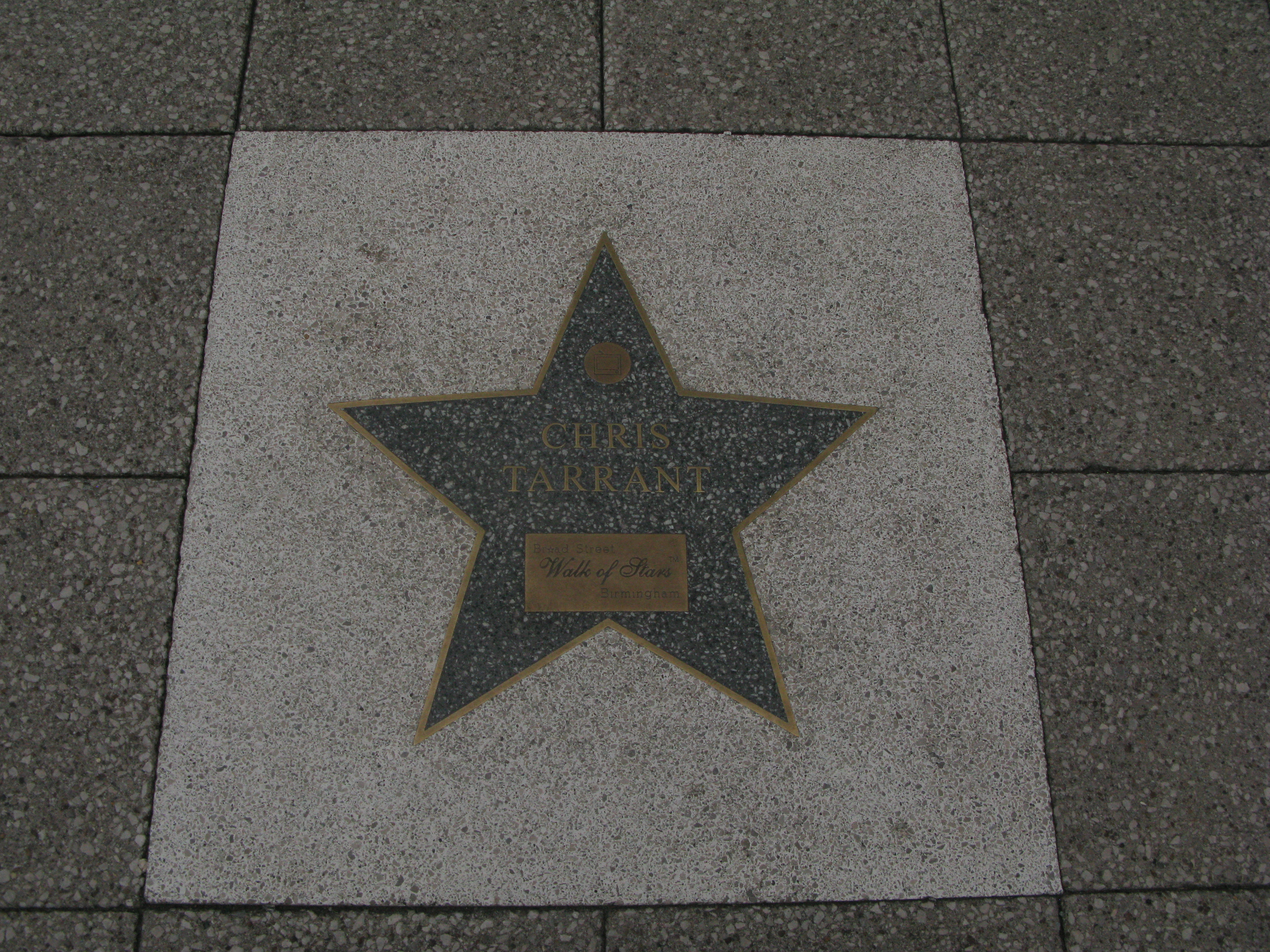 part of the Walk of Stars project. Embedded Pavement Plaques along the length of Broad Street. Most are clusterred towards the City end